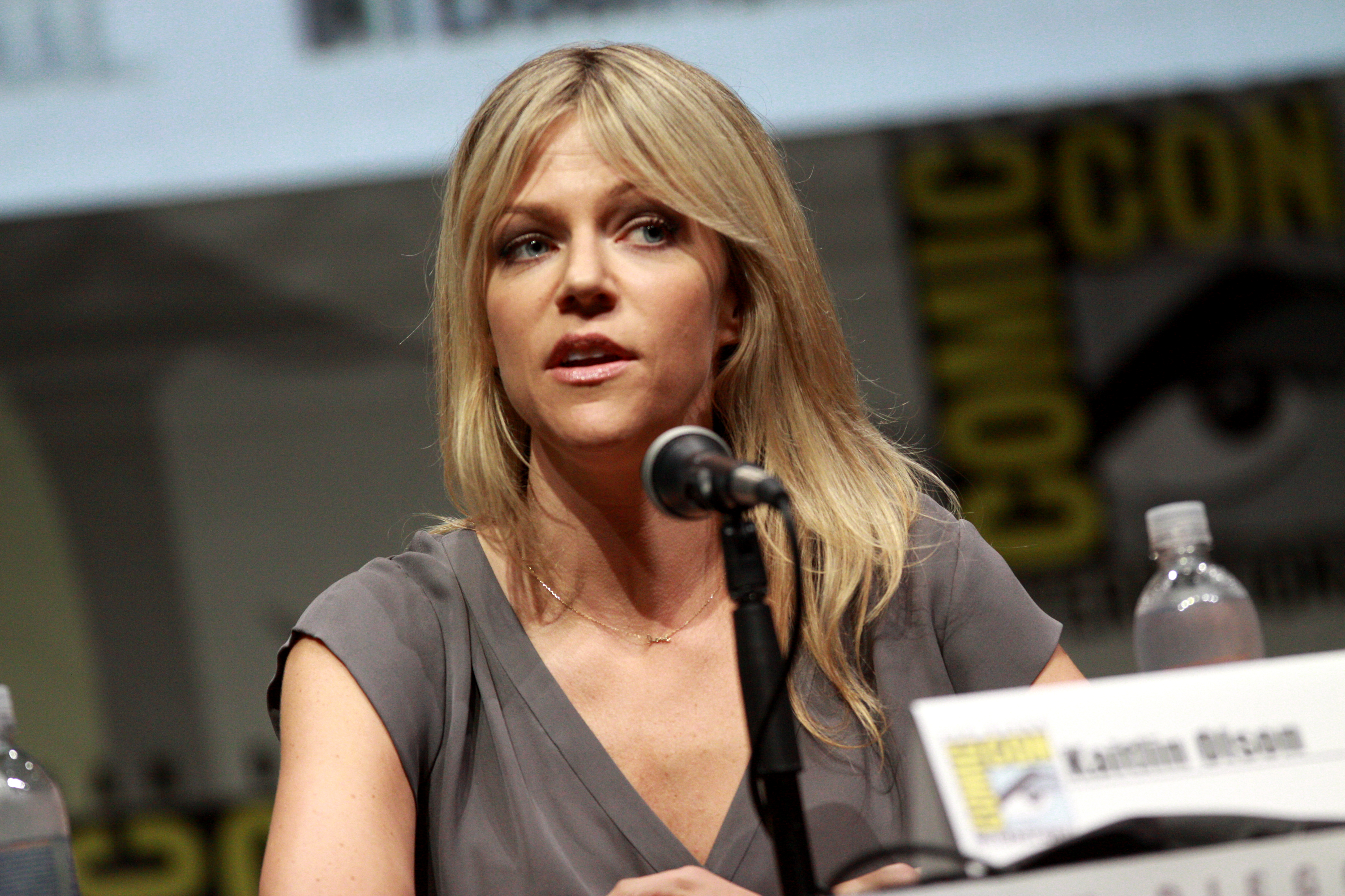 Kaitlin Olson speaking at the 2013 San Diego Comic Con International, for "It's Always Sunny in Philadelphia", at the San Diego Convention Center in San Diego, California.